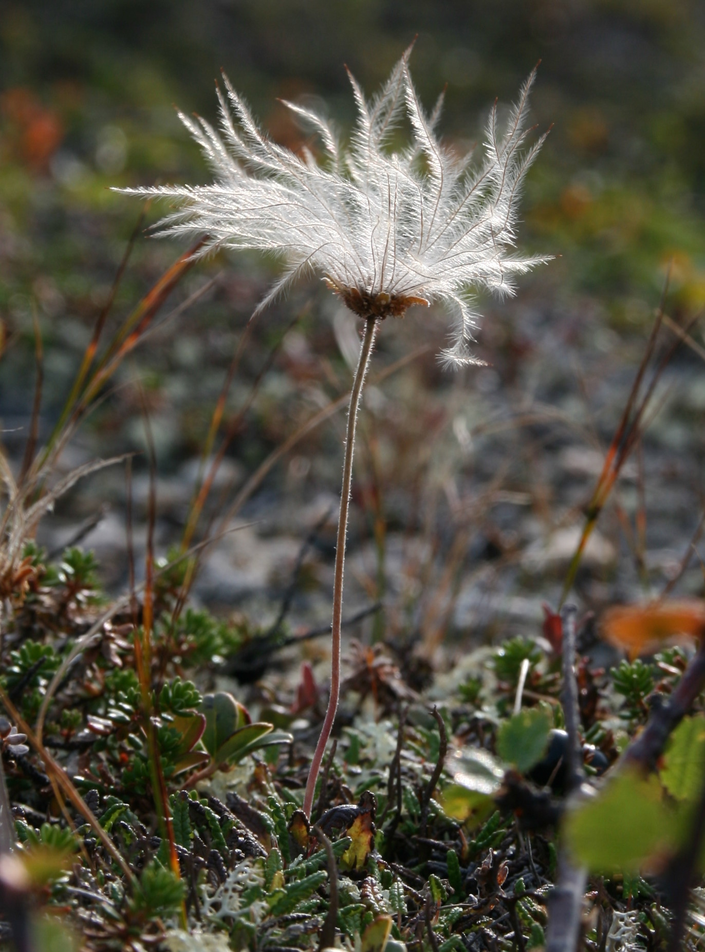 Dryas octopetala